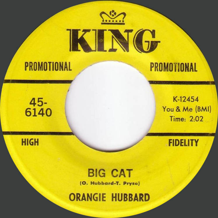 Big Cat by Orangie Hubbard, King 1967.